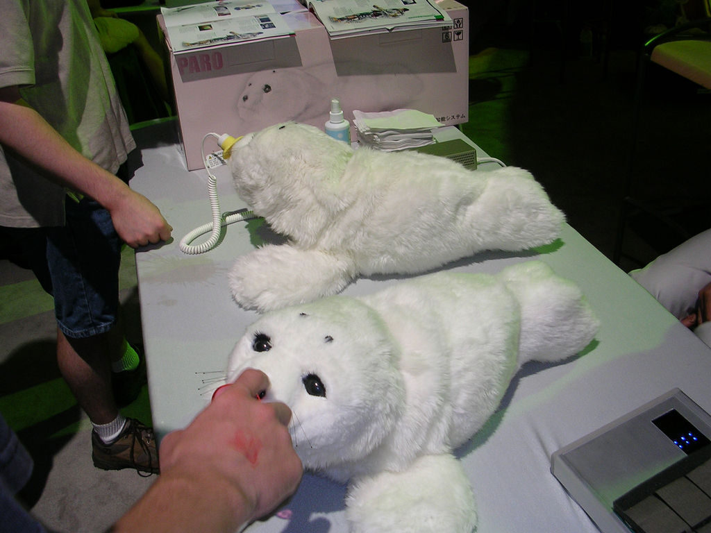 Paro therapeutic robot seal; photo taken at Wired Nextfest at Navy Pier.